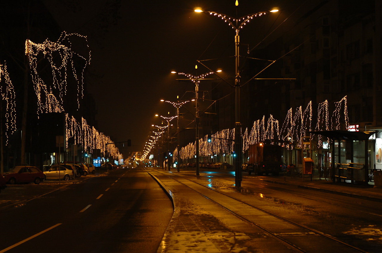 Boulevard of King Alexander, Lion vicinity, Belgrade Srpskohrvatski / српскохрватски: Bulevar Kralja Aleksandra u blizini Liona, Beograd